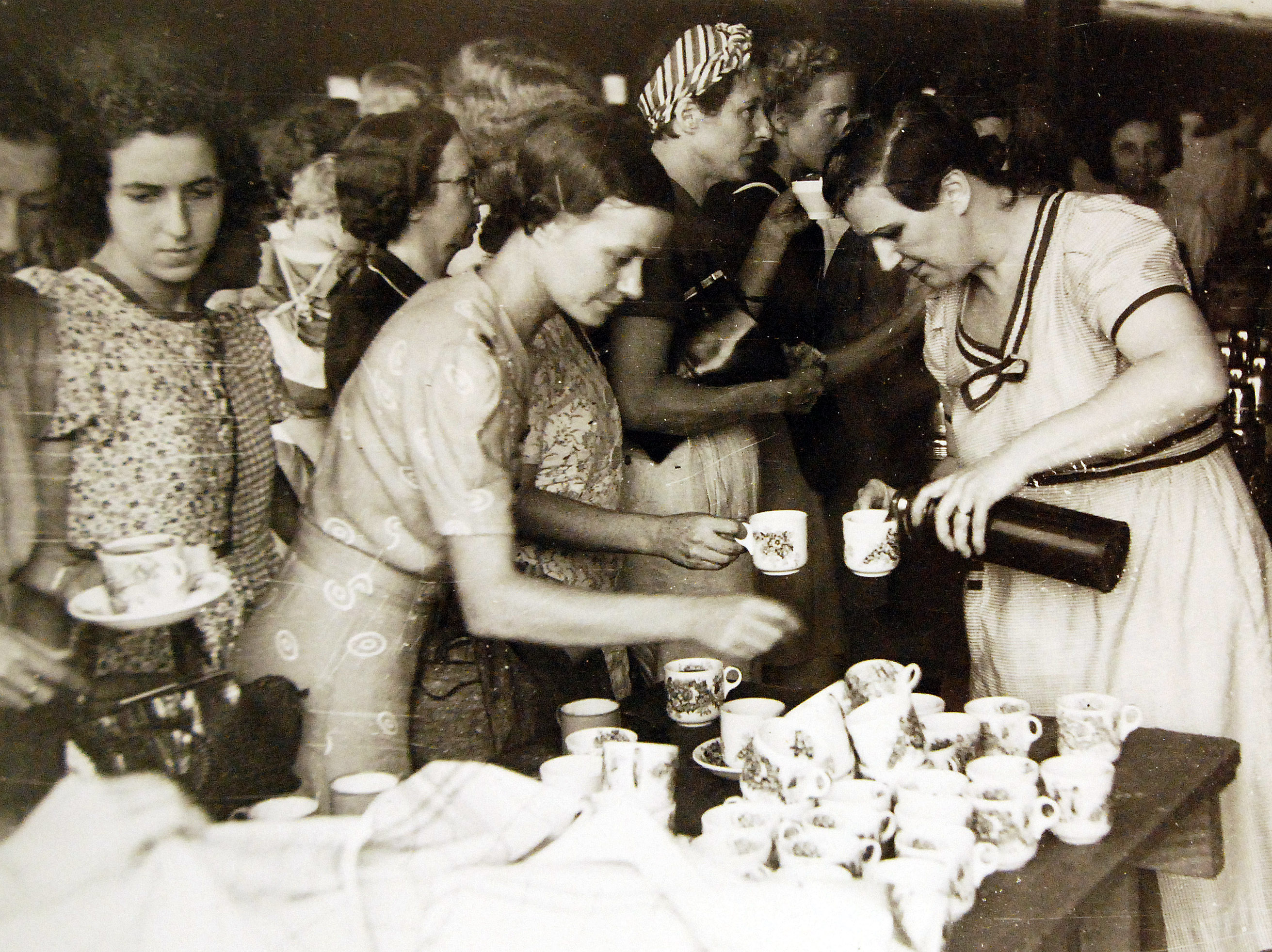 Lot 11612-6: The War In Malaya – Refugees from Penang. Stirring tales of heroism and of lucky escapes were told by refugees from Penang on arrival at IPOH Station, Perak, on their way to Singapore. Scene shows IPOH Station as they took refreshments provided for them by local residents. Office of War Information Photograph. (2016/01/22).